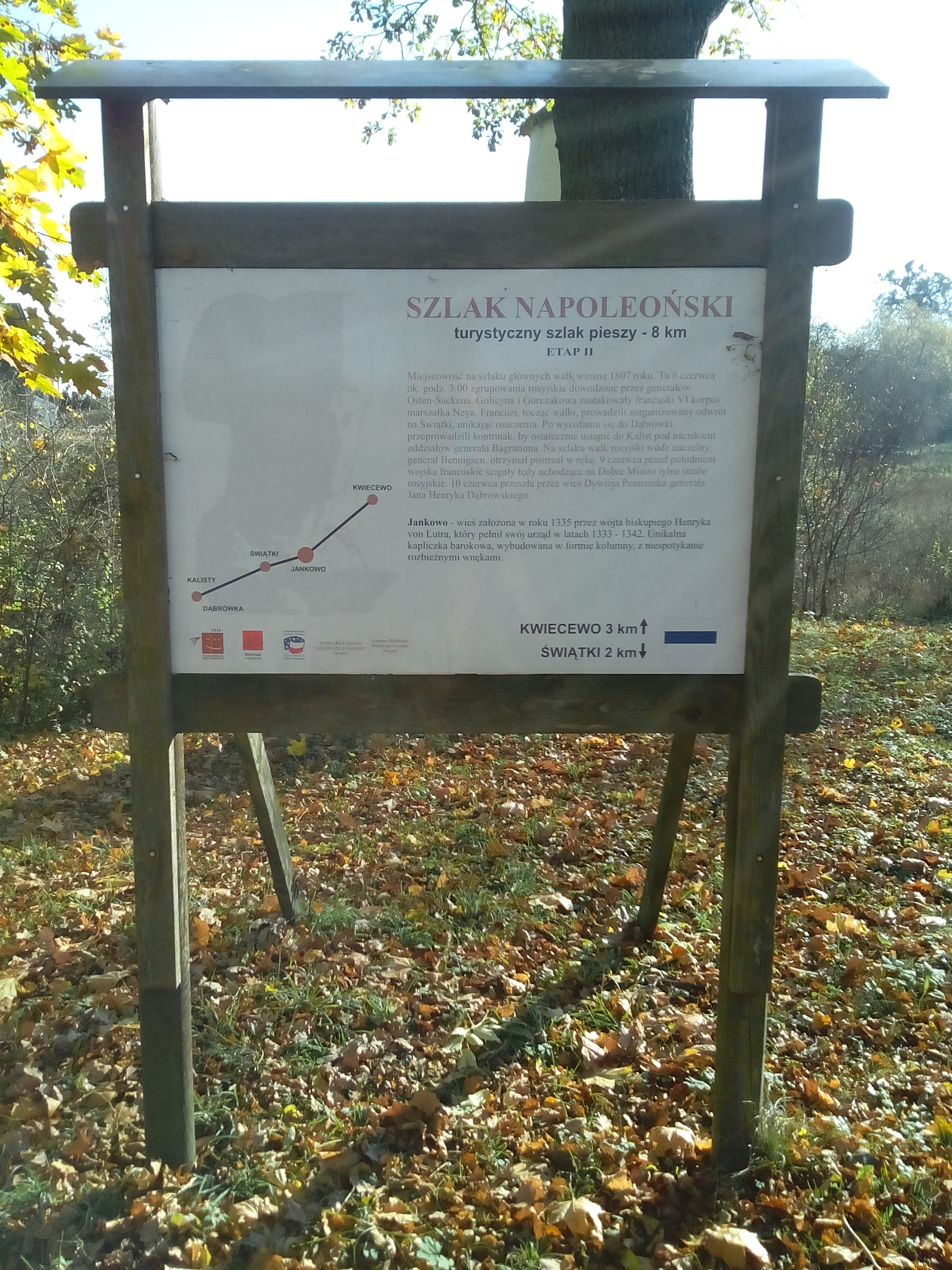 Jankowo in 2014 (before 1945 Ankendorf. Guttstadt-Deppen battle info sign)